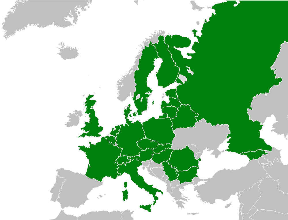 The recorded distribution range of Dolomedes plantarius. This is not an exact range but a representation of the countries in which the species has been recorded to inhabit.